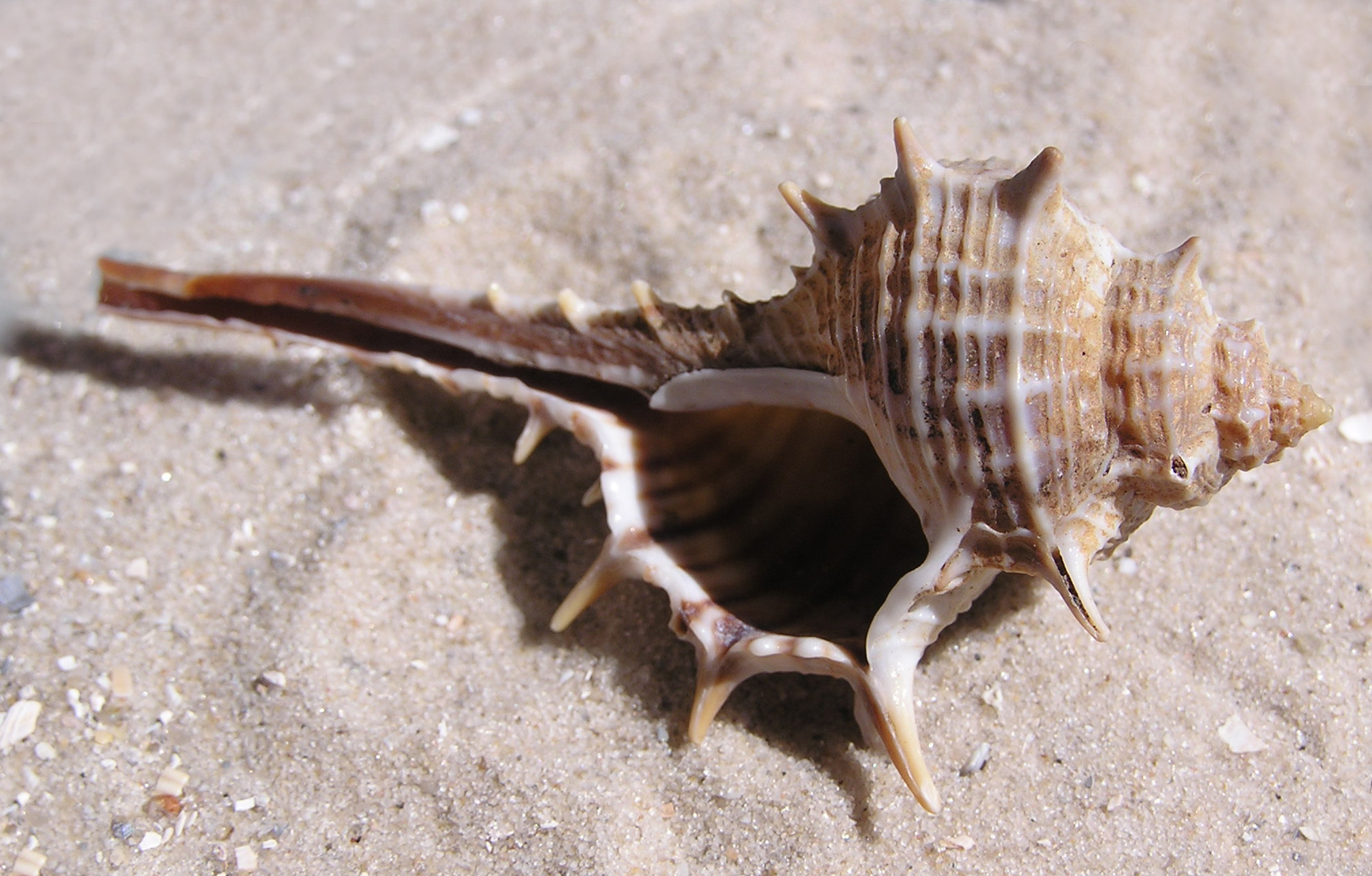 A Murex trapa shell.